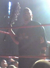 2 Tuff Tony at the Oddball Bonanza Show on March 20, 2010 at the Electric Factory in Philadelphia.